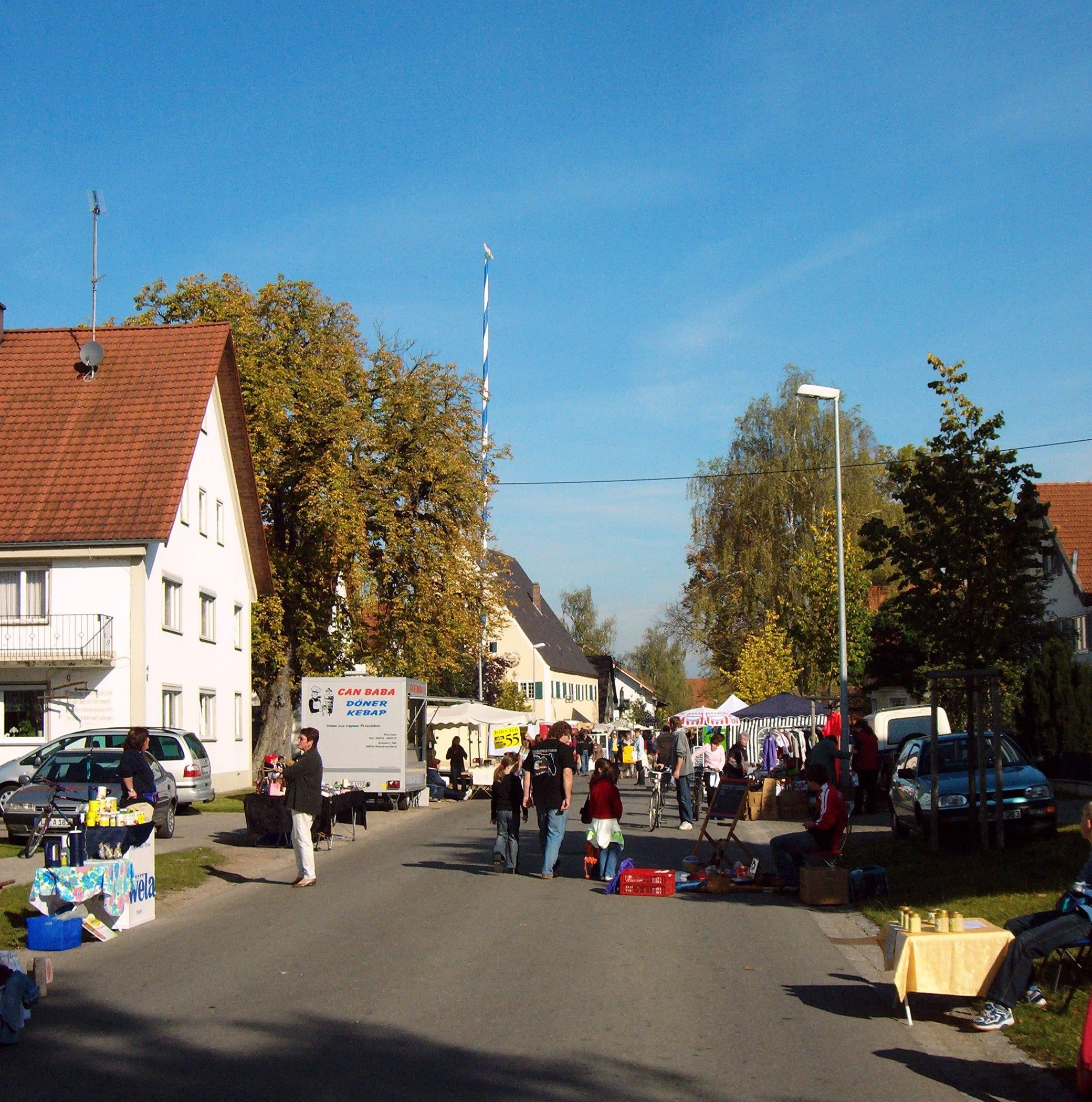 Mainstreet Leeder, Fuchstal, Bavaria, Germany